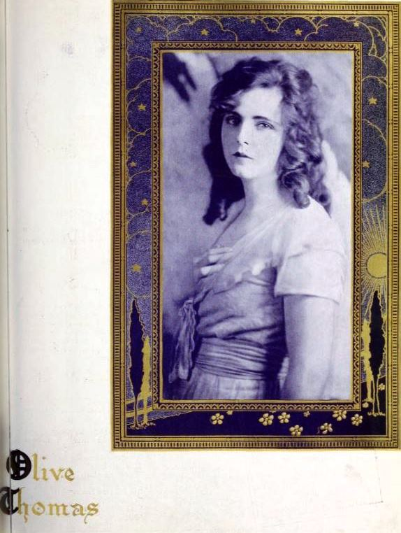 Advertisement for the American comedy drama film Everybody's Sweetheart (1920) with Olive Thomas, from the insert after page 26 of the October 30, 1920 Exhibitors Herald. The film was Thomas' final film role and was released nearly a month after her death in Paris.